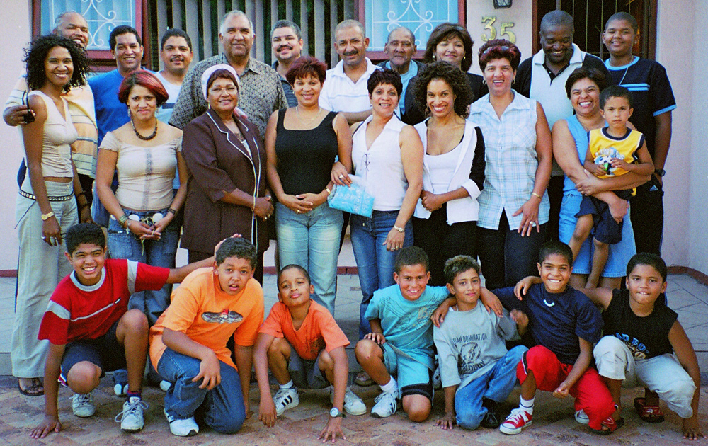 This is a photo of an extended Coloured family with roots in Cape Town, Kimberley, and Pretoria (South Africa). The photo was taken in Thornton, Cape Town at Christmas 2000. The picture was taken by Henry Trotter, to whom these family members are in-laws. They comprise the Binghams, the Abrahams, the Bayards, and the Fortunes. The author releases the picture to the public domain.